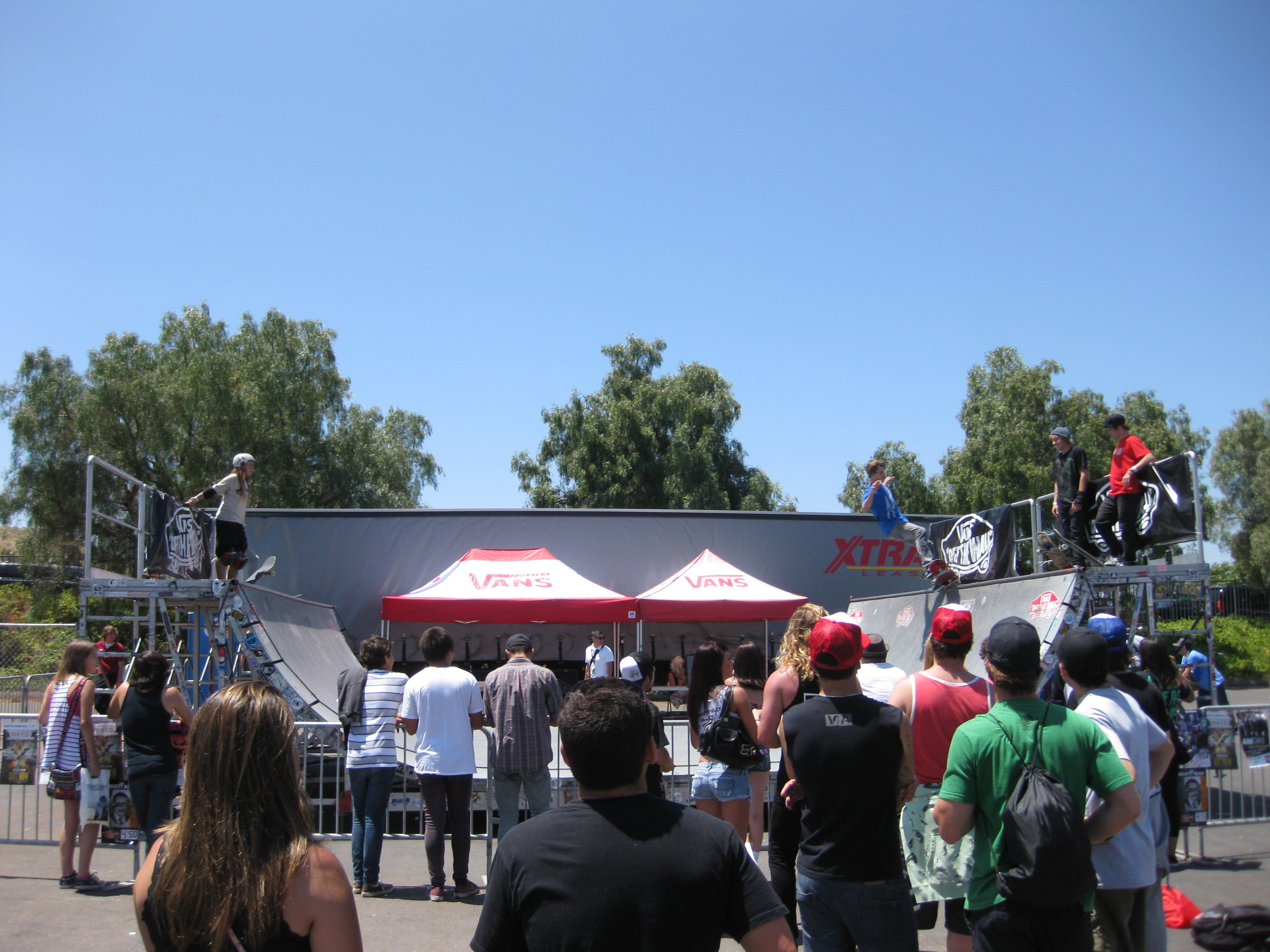 A half-pipe at the Warped Tour at the Cricket Wireless Amphitheatre in Chula Vista, California on August 10, 2010. Illustrates the extreme sports elements incorporated into the tour.